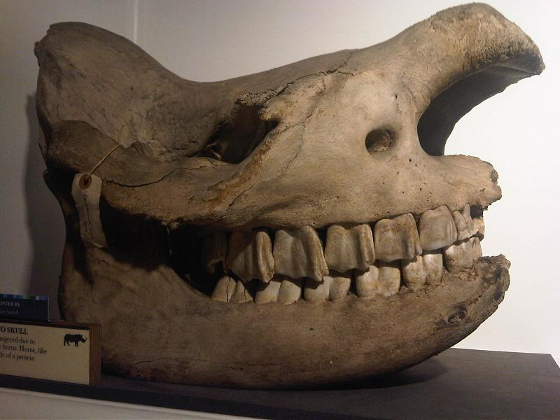 White Rhinoceros or Square-lipped rhinoceros (Ceratotherium simum) skull in Grant Museum of Zoology, London, England.